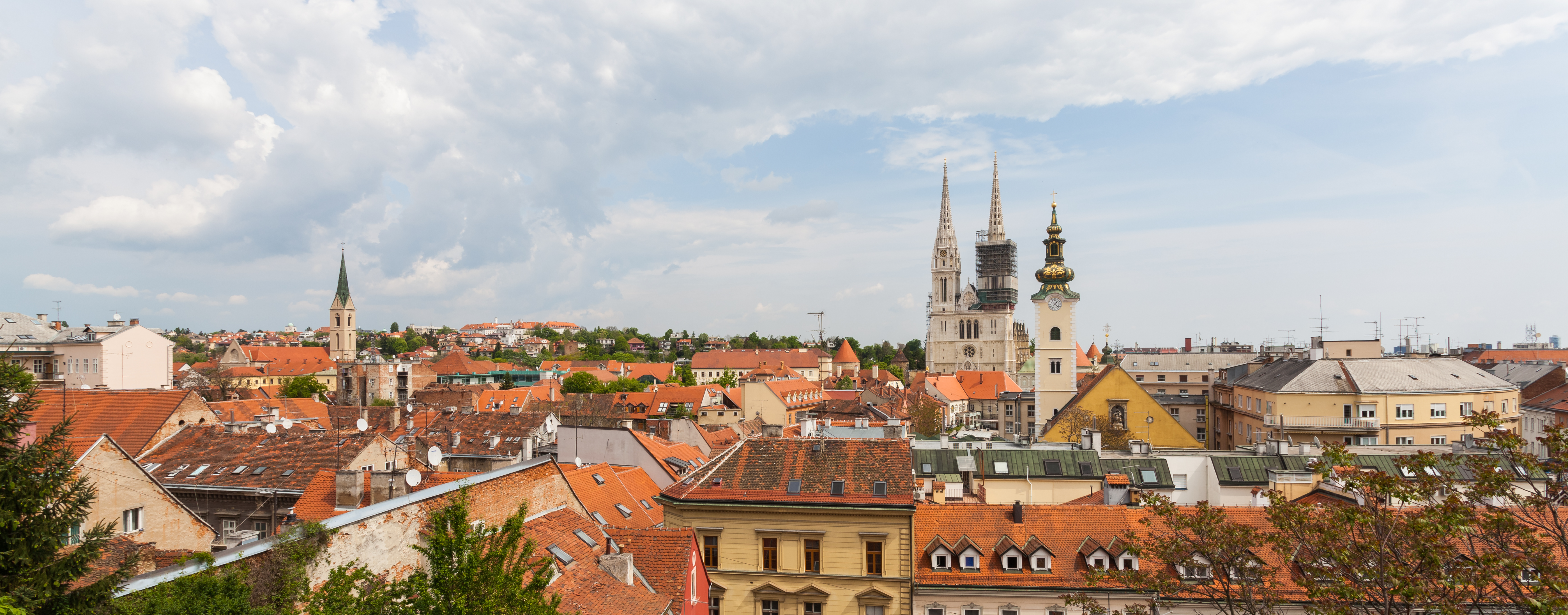 View of Zagreb, Croatia